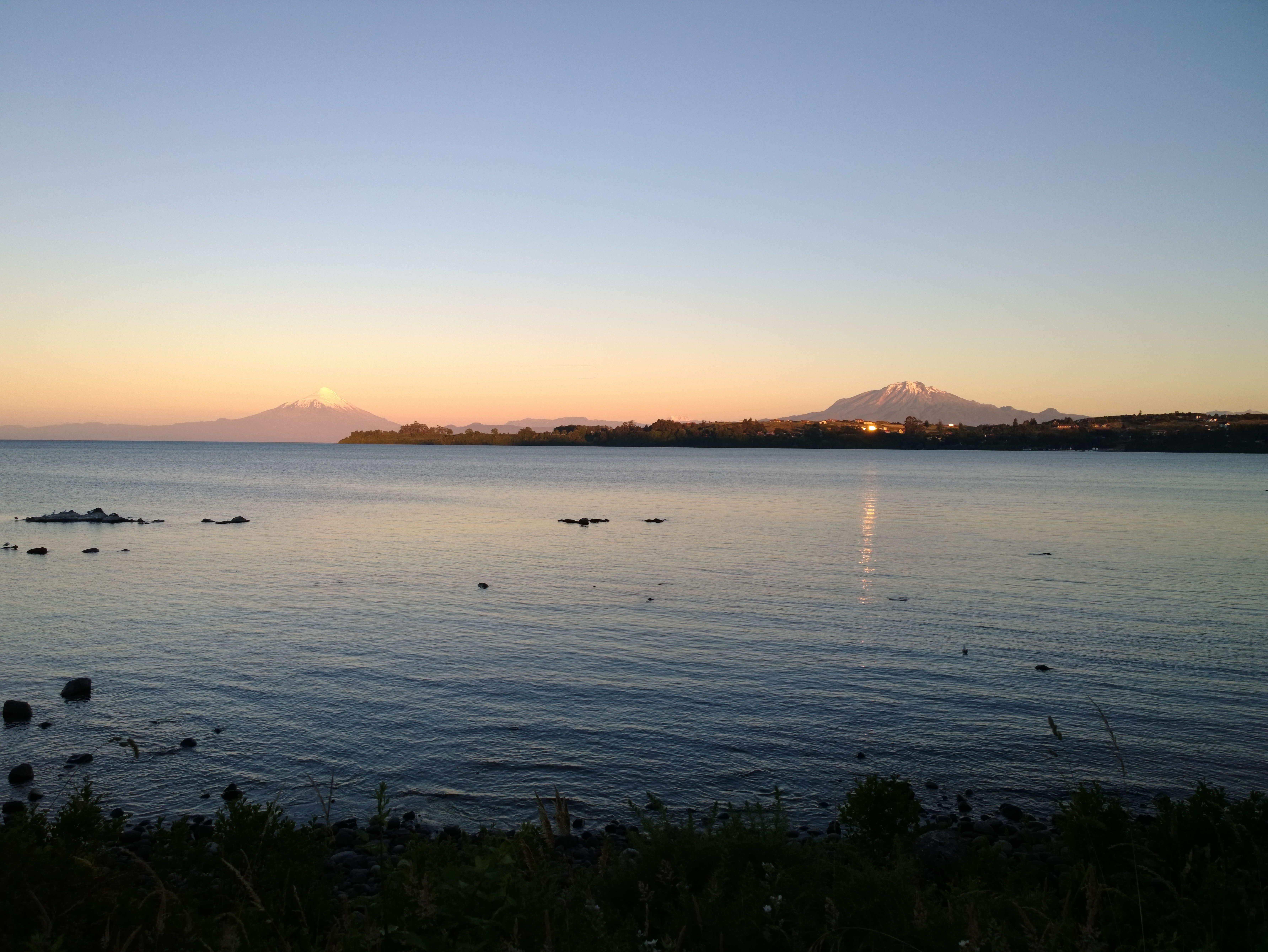 Osorno and Calbuco volcanoes and Llanquihue lake seen from Puerto Varas' main highway, Chile.